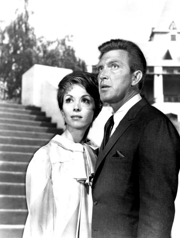 Photo of Dana Wynter and Robert Lansing from the short-lived television program The Man Who Never Was.